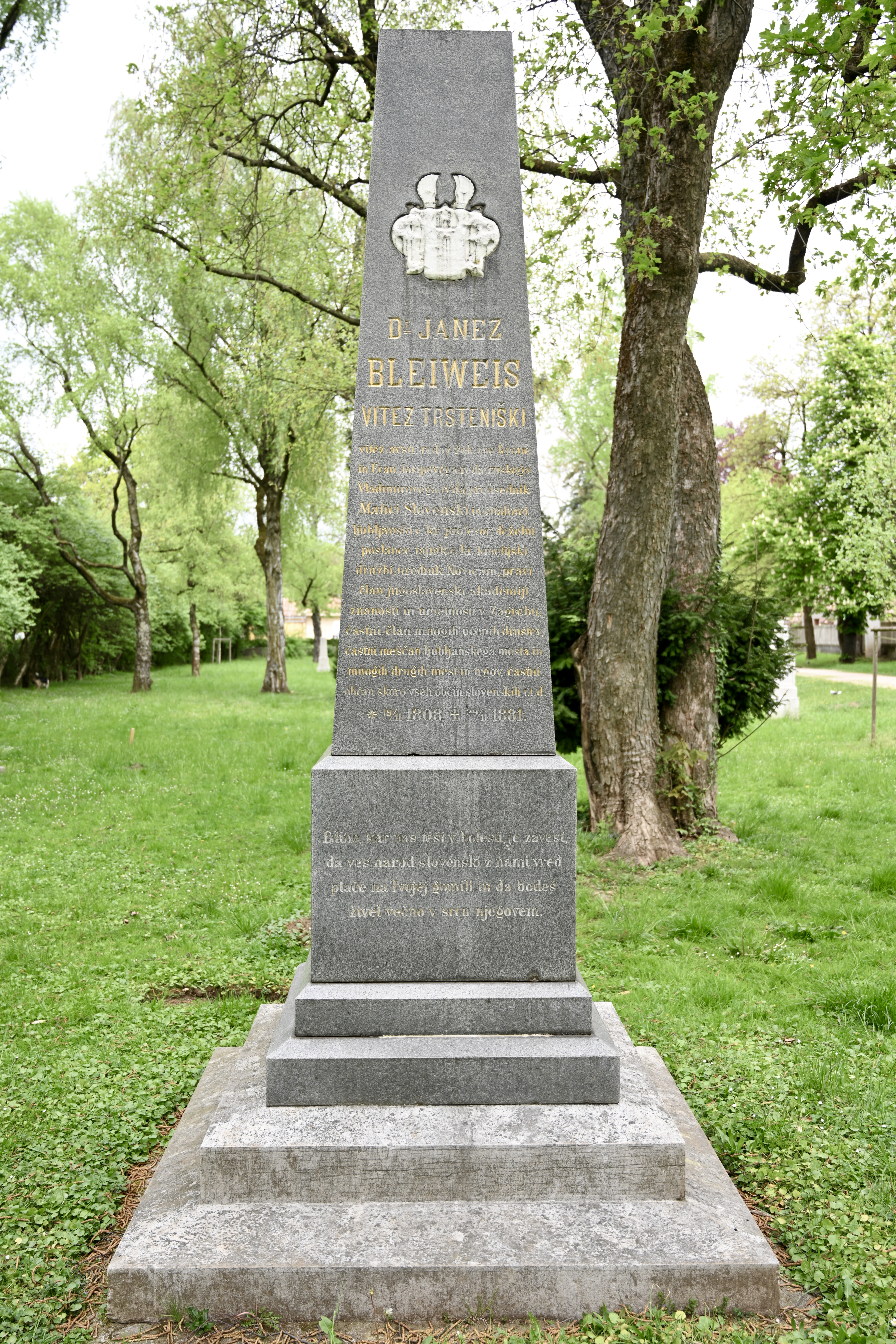 Tombstone of Janez Bleiweis at Navje, Ljubljana